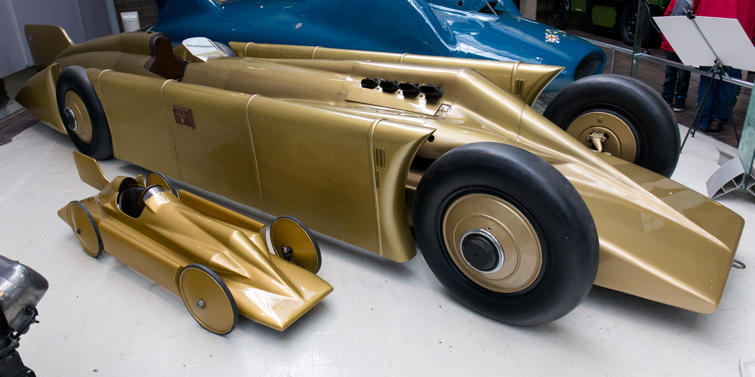 Golden Arrow